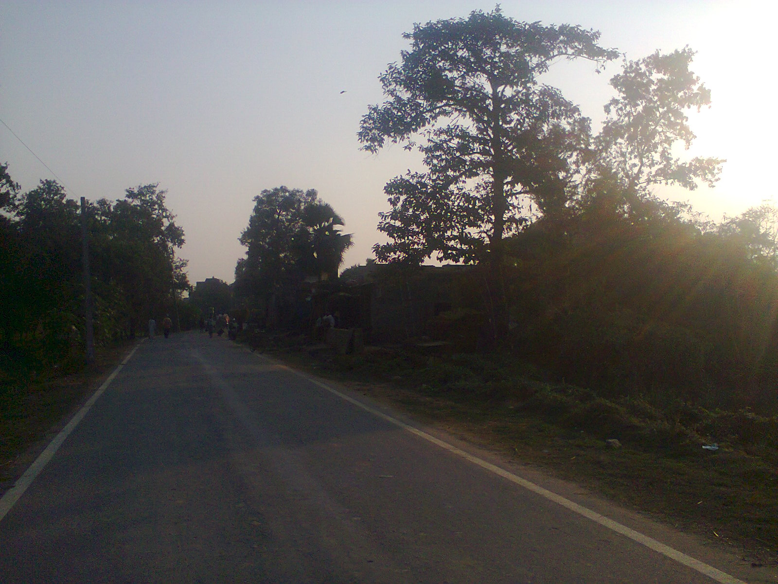 Gopalbad